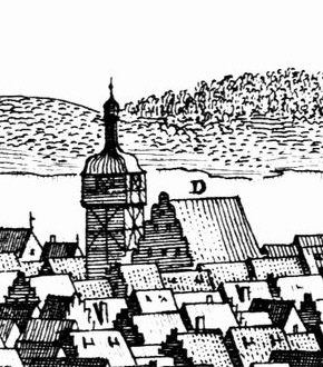 Schwerin's town hall before 1651